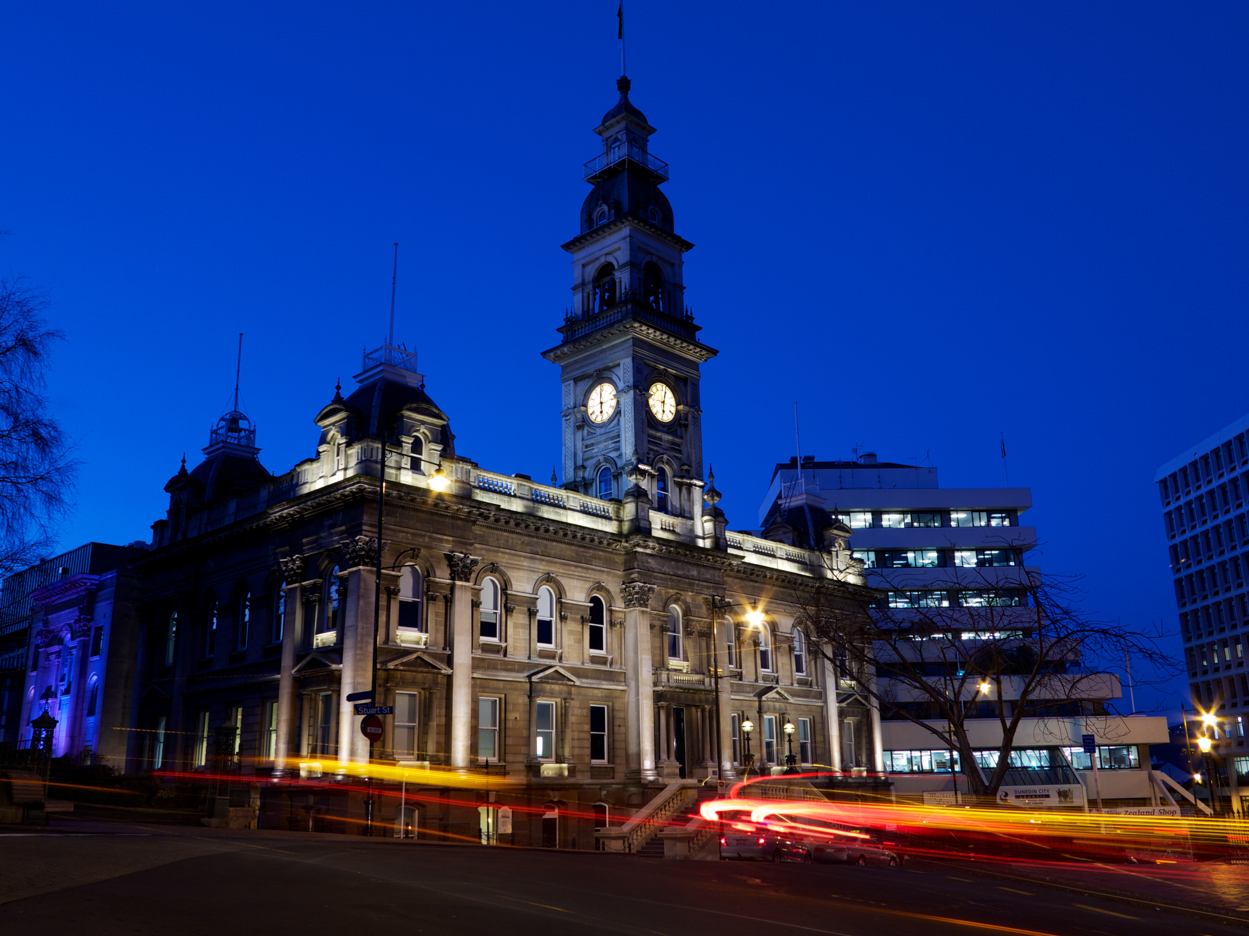 Town Hall, Dunedin, NZ